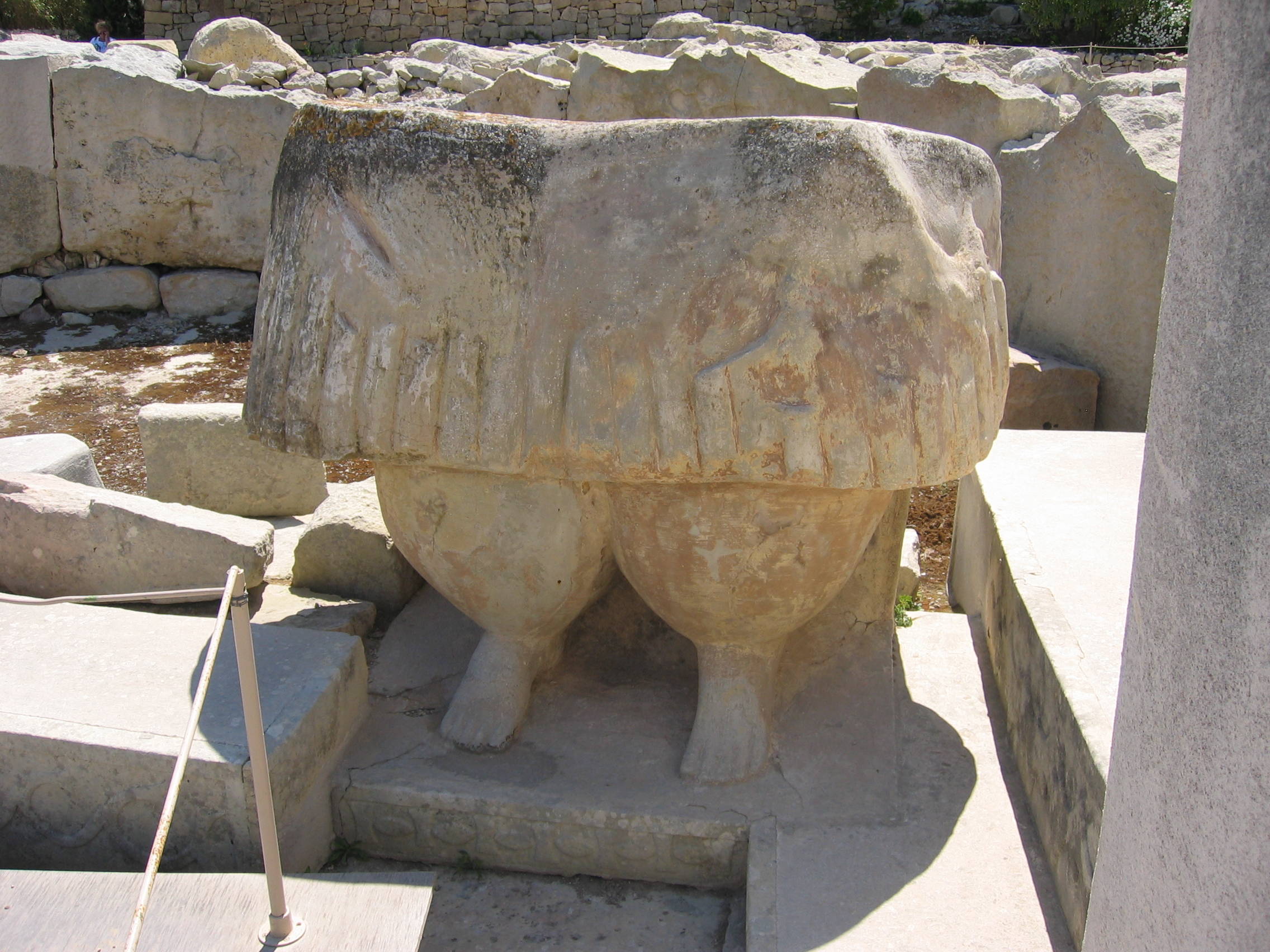 Neolithic statue, Tarxien, Malta. Many historians believe that this type of statue, dubbed "fat ladies", represented an ancient fertility goddess. Photo taken August 8, 2005